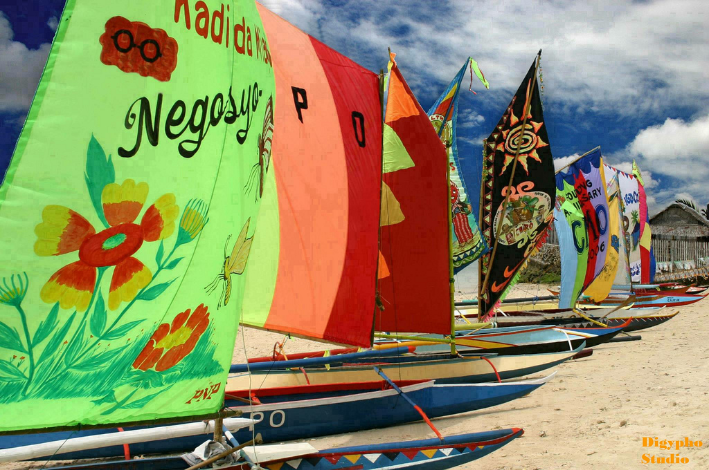 Vinta boats in Bigiw, Samal Island. Photo By Paul David Lewin: Digypho Studio Philippines